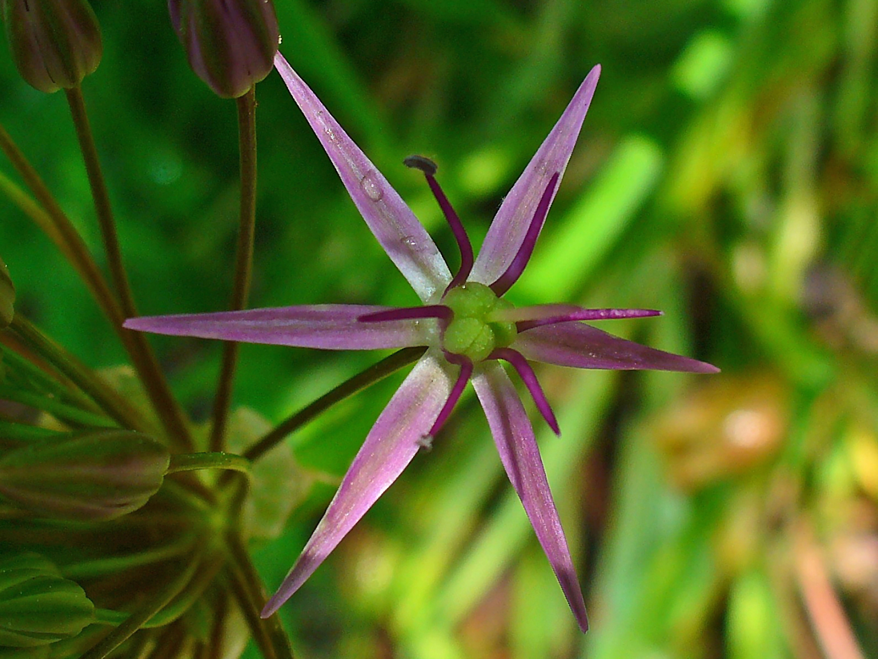 Allium cristophii, Alliaceae, Persian Onion, Star-of-Persia, flower. Botanical Garden KIT, Karlsruhe, Germany.